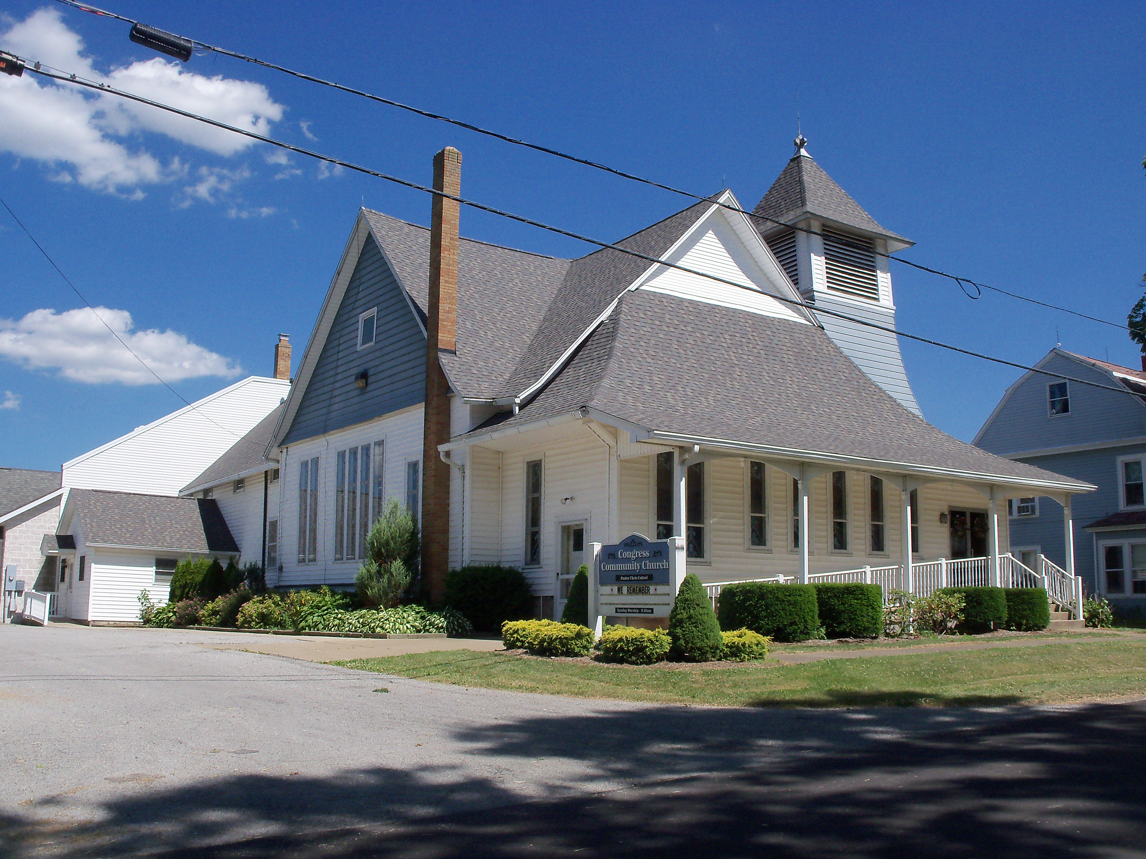 This Presbyterian Church is a member of the Ashland/Richland/Wayne Parish of the Muskingum Valley Presbytery